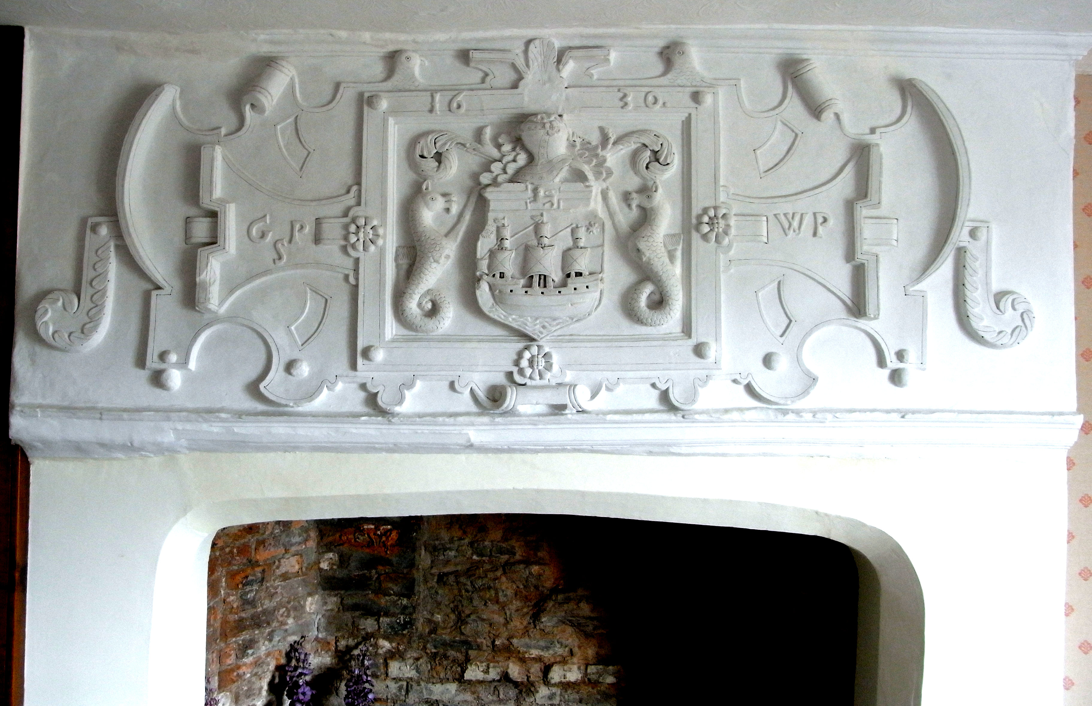 Strapwork plaster overmantel in Rookabeare House in the parish of Fremington, Devon, showing the arms of the Spanish Company: Azure in base a sea, with a dolphin's head appearing in the water all proper, on the sea a ship of three masts, in full sail, all or, the sail and rigging argent, on each a cross gules, in the dexter chief point the sun in splendour, in the sinister chief point an estoile of the third; on a chief of the fourth, a cross of the fifth, charged with the lion of England. The crest (here missing) was: Two arms embowed issuing out of clouds all proper, holding in the hands a globe or (clearly visible as an armillary sphere on the monument to Richard Beaple in St Peter's Church, Barnstaple). The supporters were: Two seahorses argent, finned or, of which the nearest forelegs of each are missing. Rookabeare was the residence of the Paige family, prominent merchants at nearby Barnstaple. On the left side of the arms appear the initials "G S P", possibly for Gilbert Paige and his wife Sara Cade. Gilbert Paige (c.1595-1647) was a merchant who was twice Mayor of Barnstaple in 1629 and 1641. His son's mural monument survives in St Peter's Church, Barnstaple. On the other side are the initials WP, possibly for William Page. (See: Reed, Margaret A., A Brief History of Higher Rookabear (Collection of North Devon Athaneum, Barnstaple)). The date above is 1630, the significance of which is unclear. Perhaps it was the date of his admission to the lucrative membership of the Spanish Company. It is unusual that personal arms are not used in such a domestic setting. Perhaps as yet he had received no grant of arms, or perhaps he wanted to record his membership of the Company above all else, and keep it in continual view. From Rookabeare House high on a hill on the south/west bank of the River Taw, an exceptional view is had of the shipping lane of the River Taw into the former port of Barnstaple. From here the Paiges could thus monitor the cargoes coming into port.